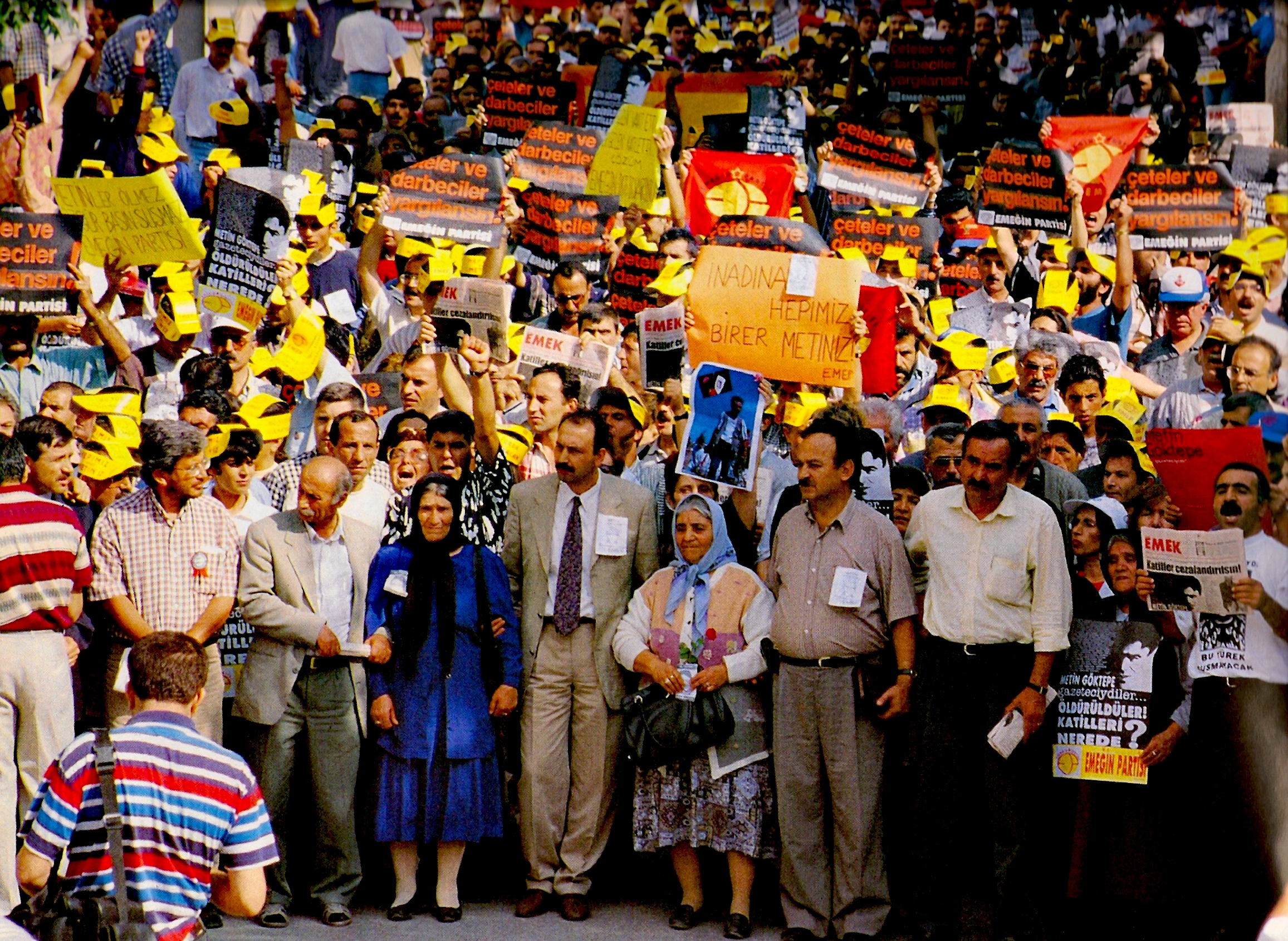 Demonstration for Metin Göktepe, with Fadime Göktepe, Levent Tüzel, and Sabri Topçu.